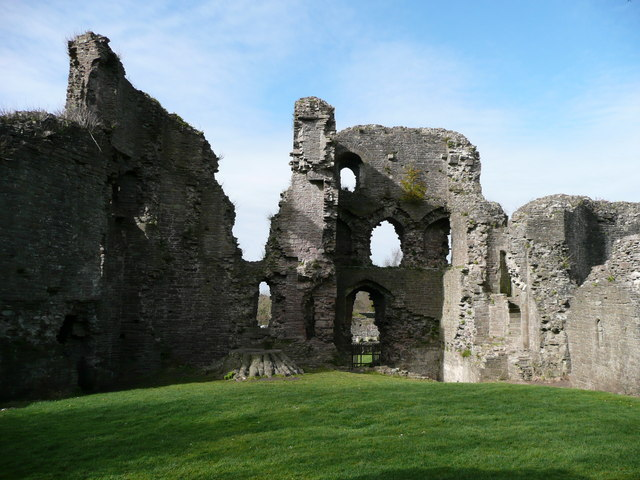 Abergavenny Castle curtain wall interior. Abergavenny Castle is a castle in the town of Abergavenny, Monmouthshire in south east Wales.